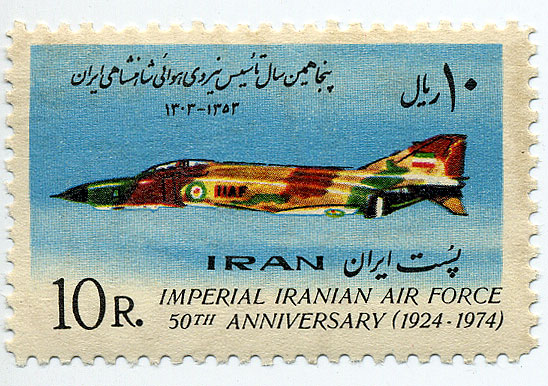 A McDonnell Douglas F-4E is shown on this 10R Stamp belong to post office of iran